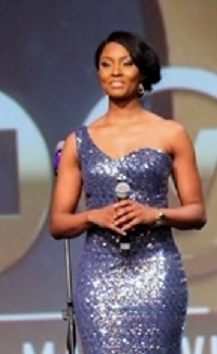 Osas at the AMVCAs